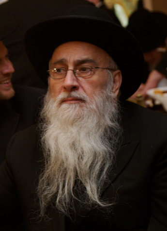 picture of Rabbi Yitzchak Abadi